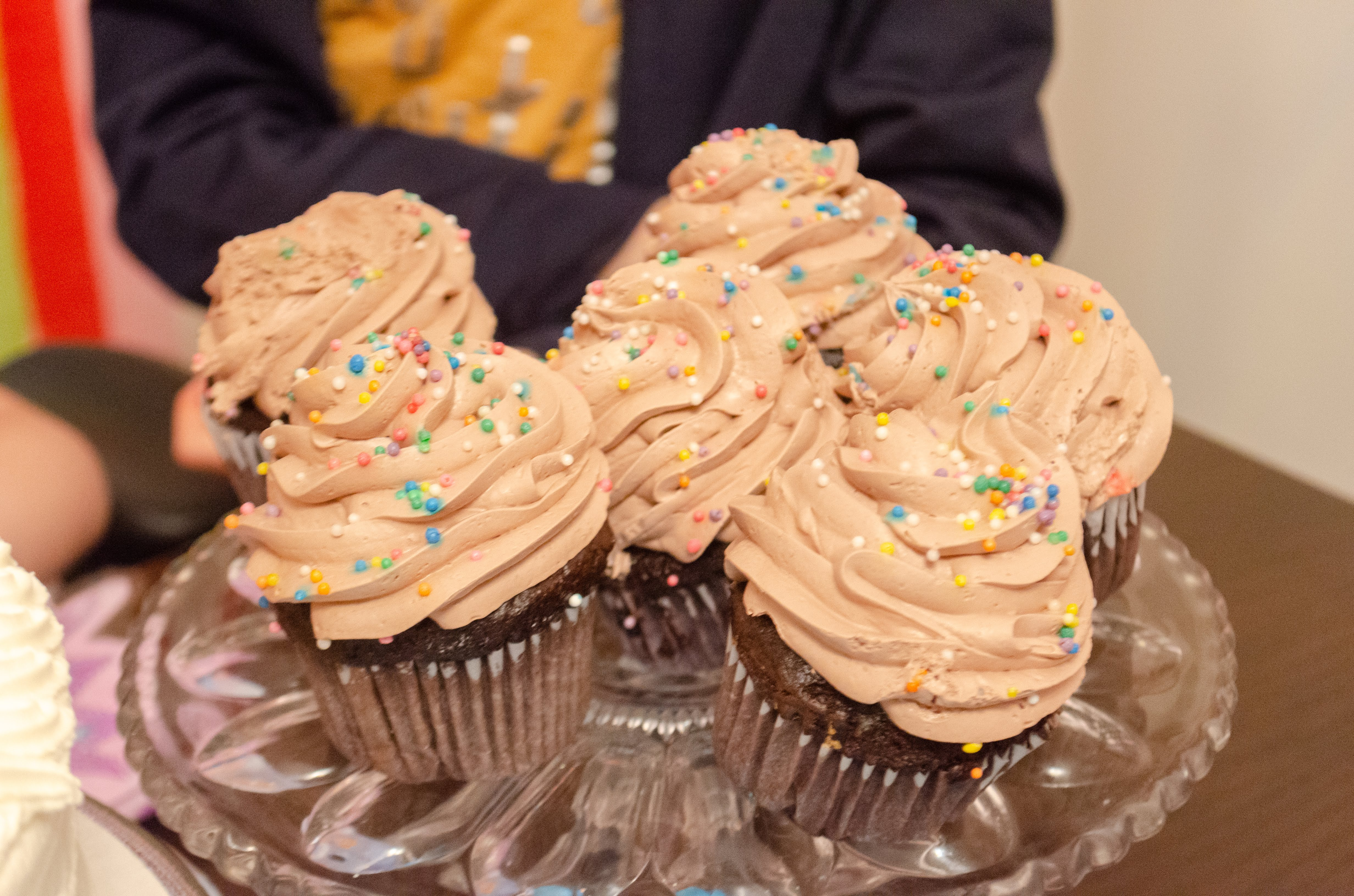 Chocolate Cupcakes on glass plate